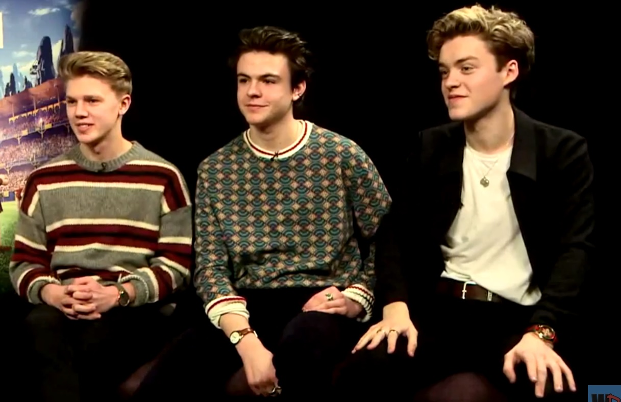 James Gilmore interviews pop band New Hope Club about their involvement in the new Aardman film, Early Man. Left to Right: George Smith, Blake Richardson, Reece Bibby.